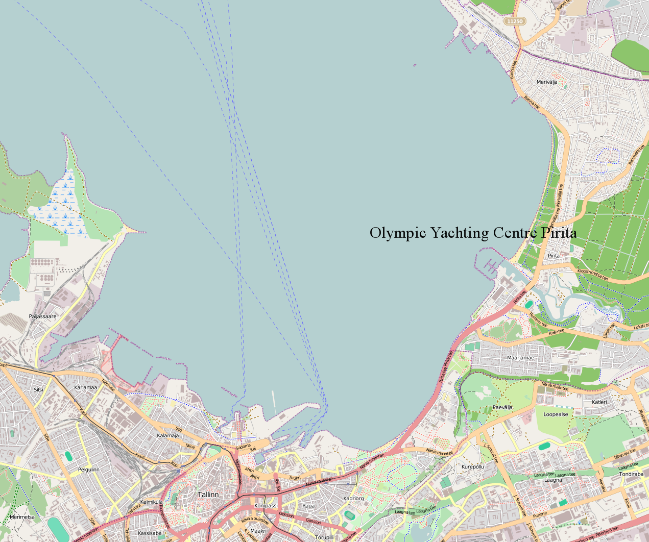 Olympic Sailing Center 1980 This map may be incomplete, and may contain errors. Don't rely solely on it for navigation.